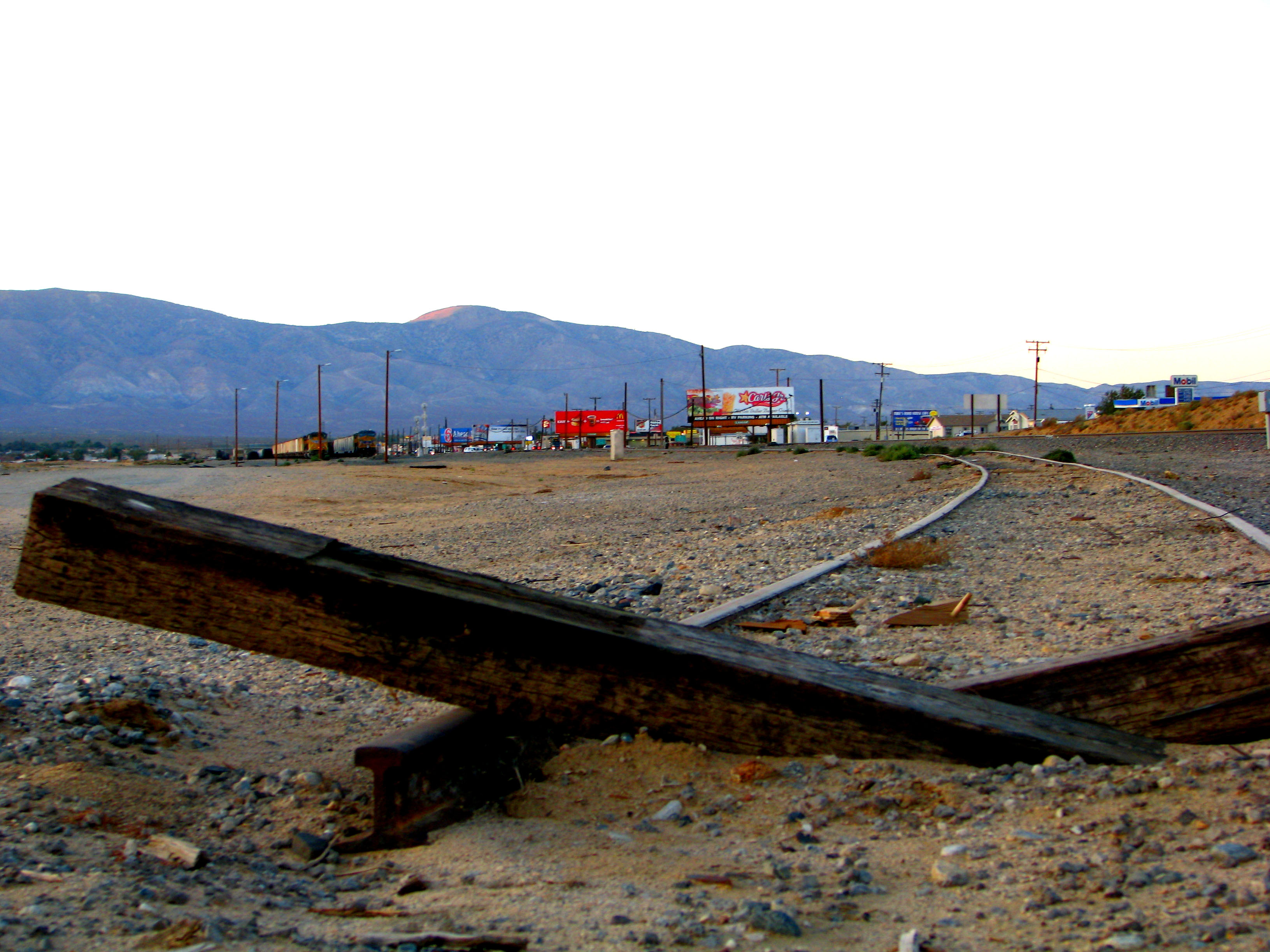 The end of an old siding in Mojave, California